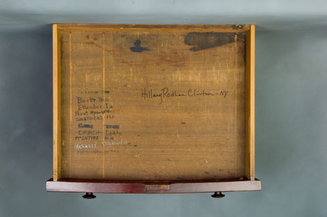 Inside drawer of Senate chamber desk LXXXVII occupied by Hillary Clinton during her time in the U.S. Senate. Note signature at center inside of the drawer.